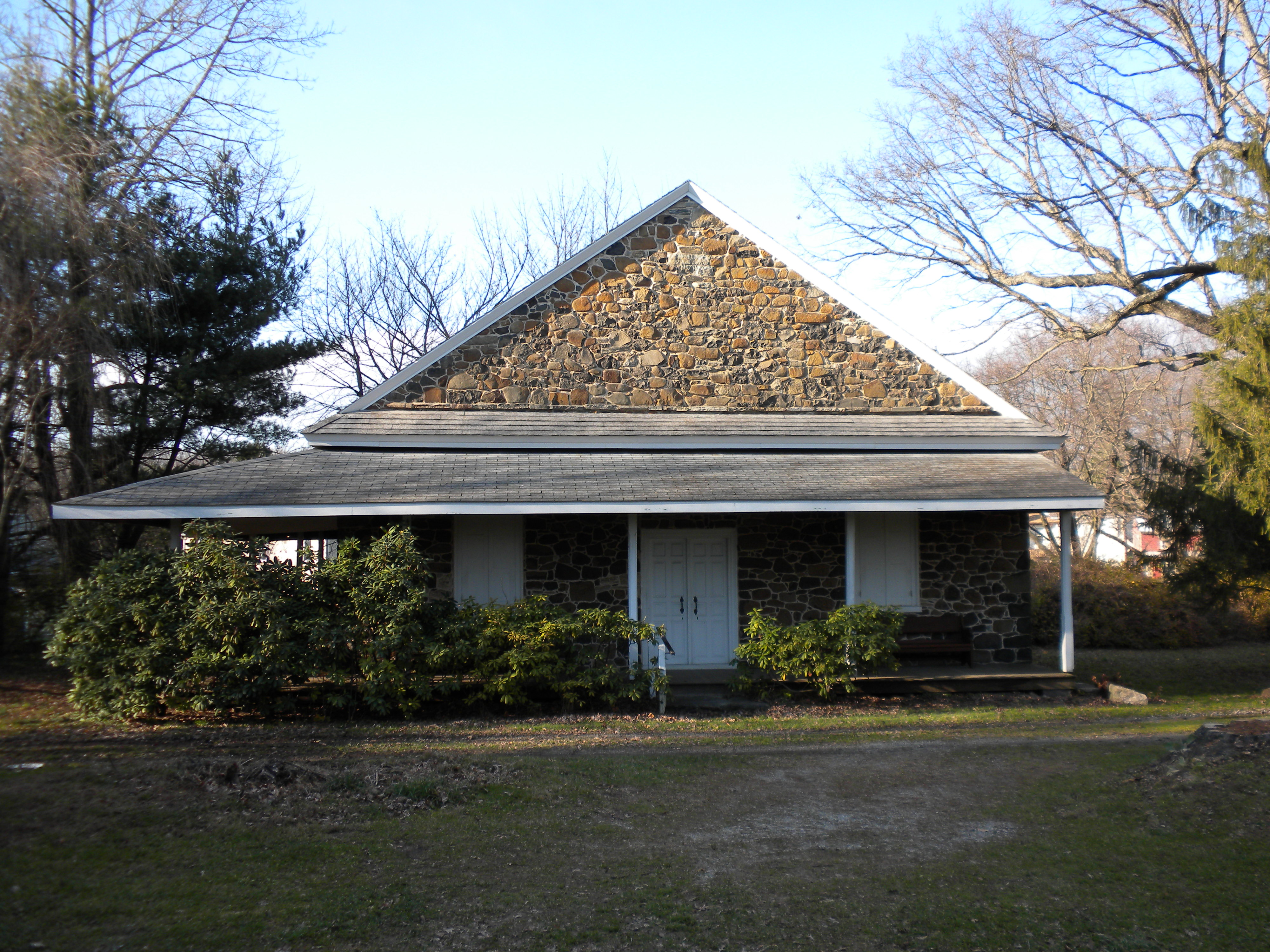 Bradford Friends Meetinghouse in Marshallton, PA, Chester County. On NRHP This photo is my own work and I donate it to the public domain.